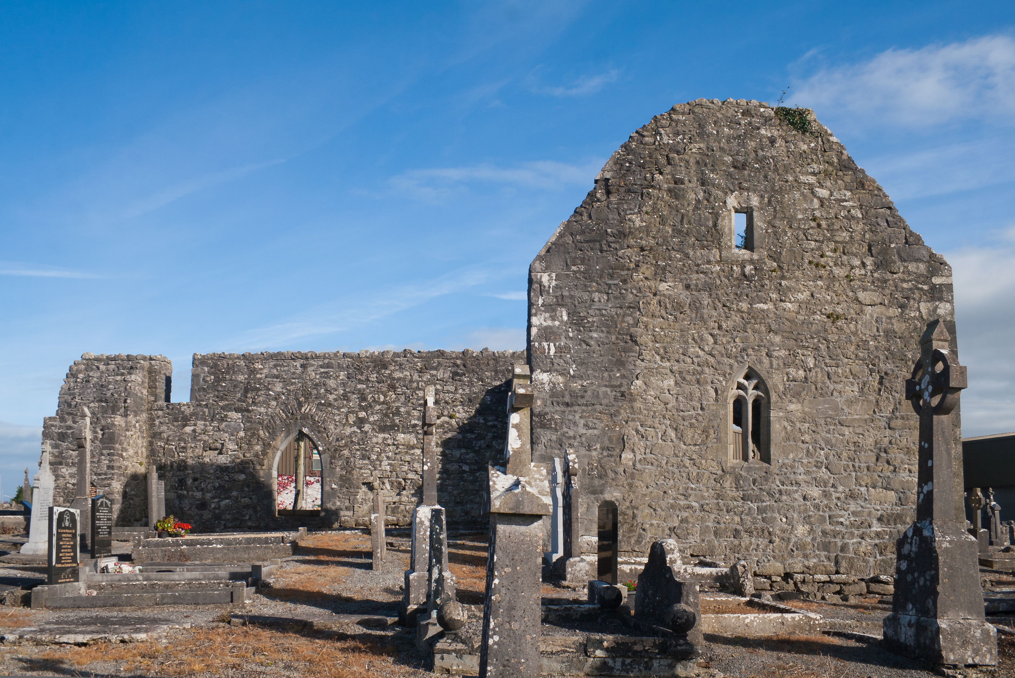 South view of the old church of Kilmaine with a 16th-century tracery window on the site of an early Christian monastery.